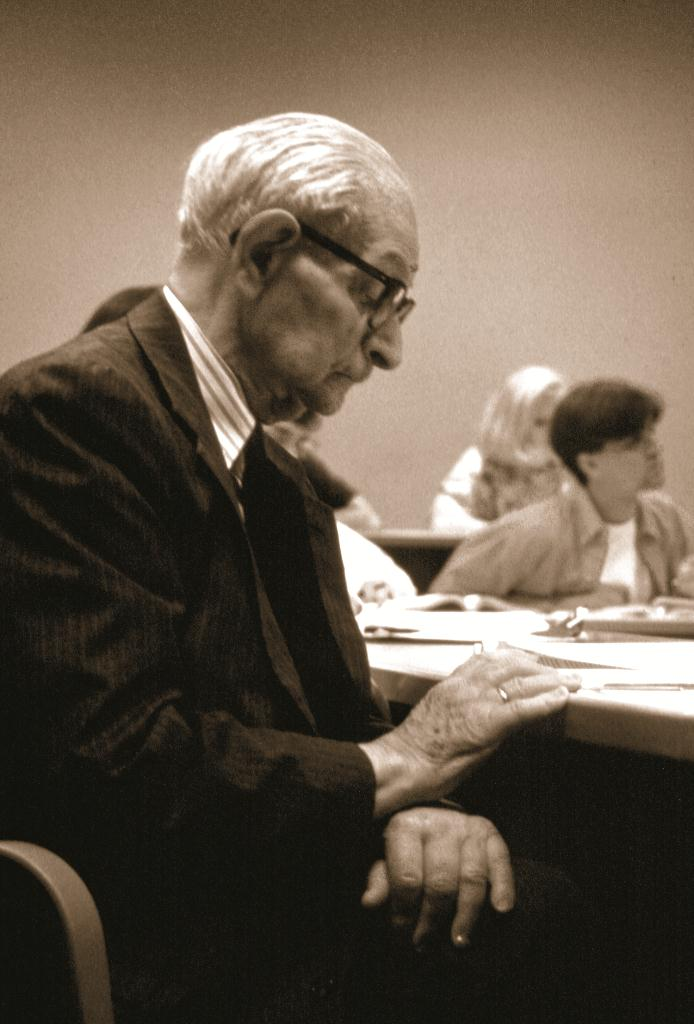 Sandor Teszler in a classroom at Wofford College, from the Wofford College Archives